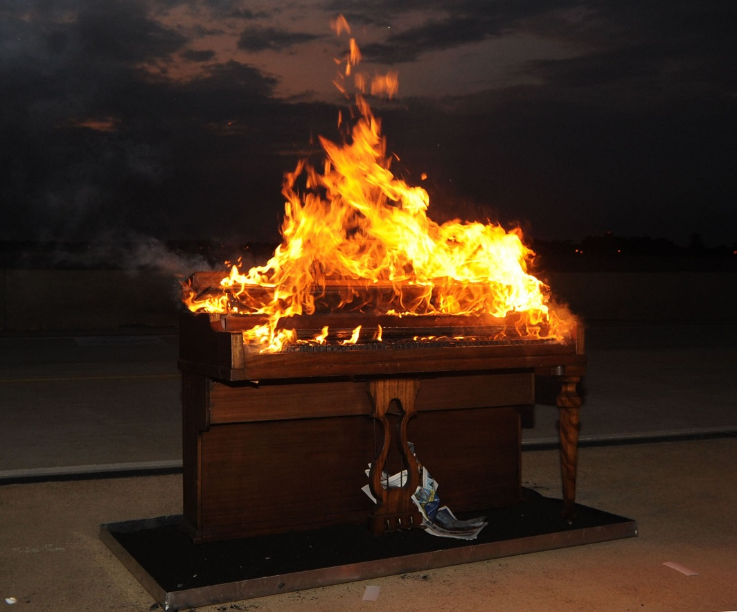 Piano burning ceremony, Langley Air Force Base, Virginia